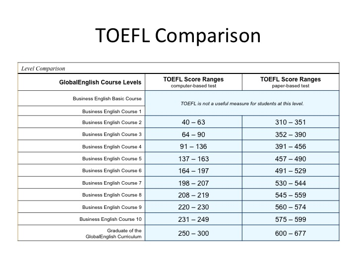 A TOEFL comparison to BELIT test results.